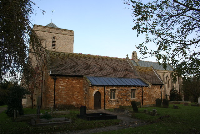 St Michael's parish church, Little Coates, Grimsby, Lincolnshire, seen from the south